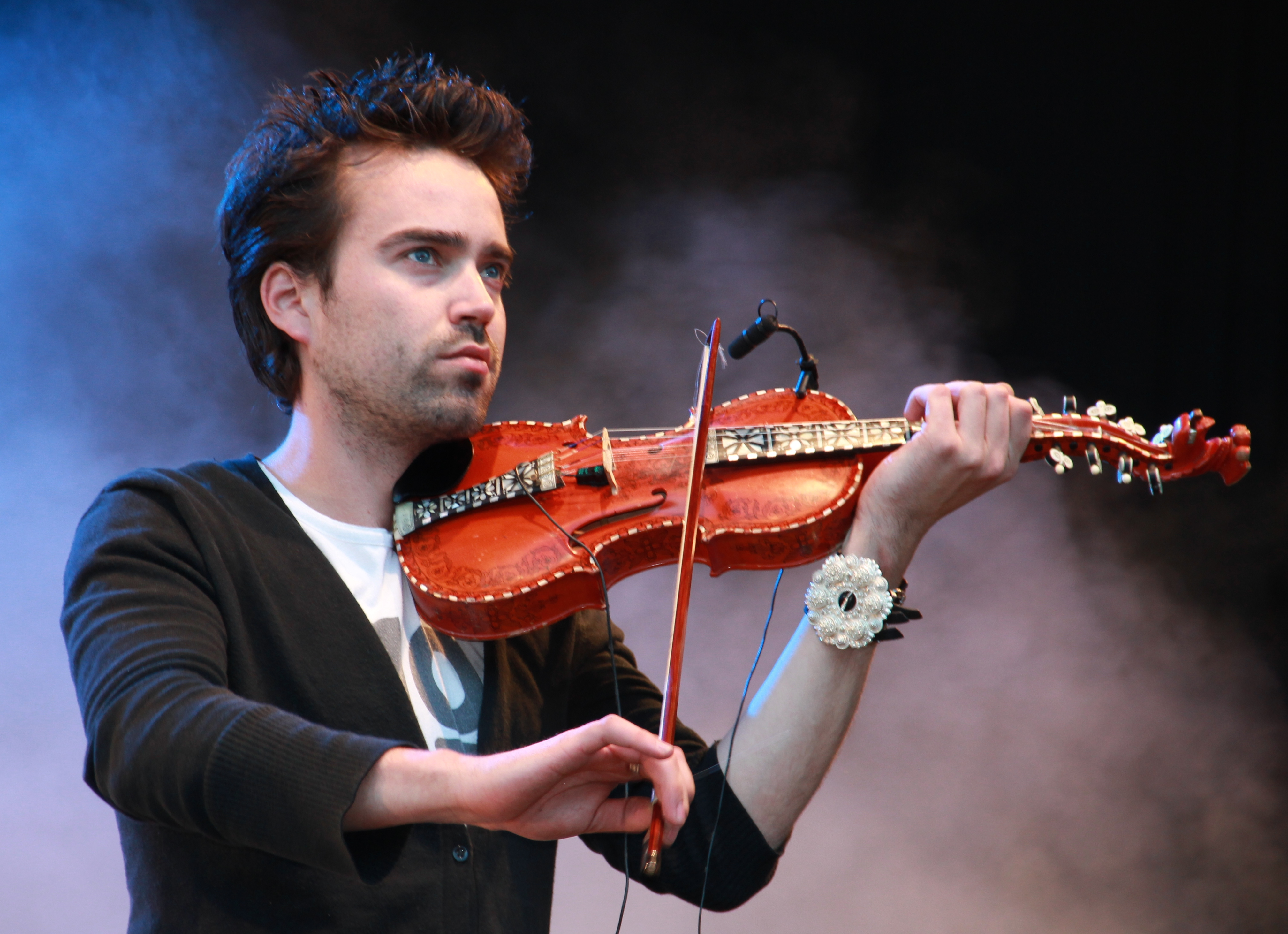 Ola Hilmen at the 2010 GranittRock.